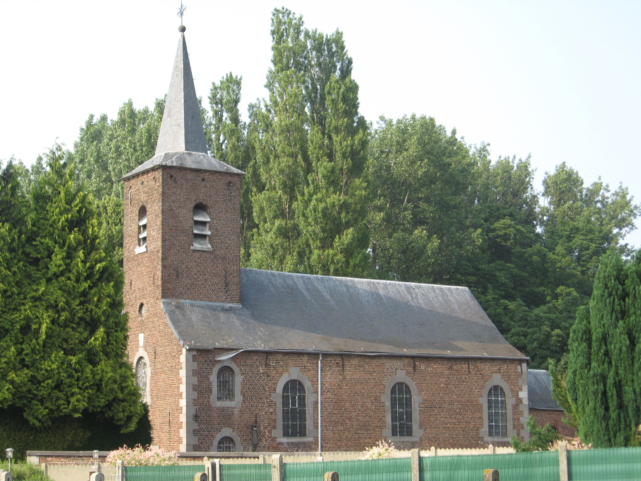 Chapel of Saint Giles in Rumsdorp, Landen, Flemish Brabant, Belgium